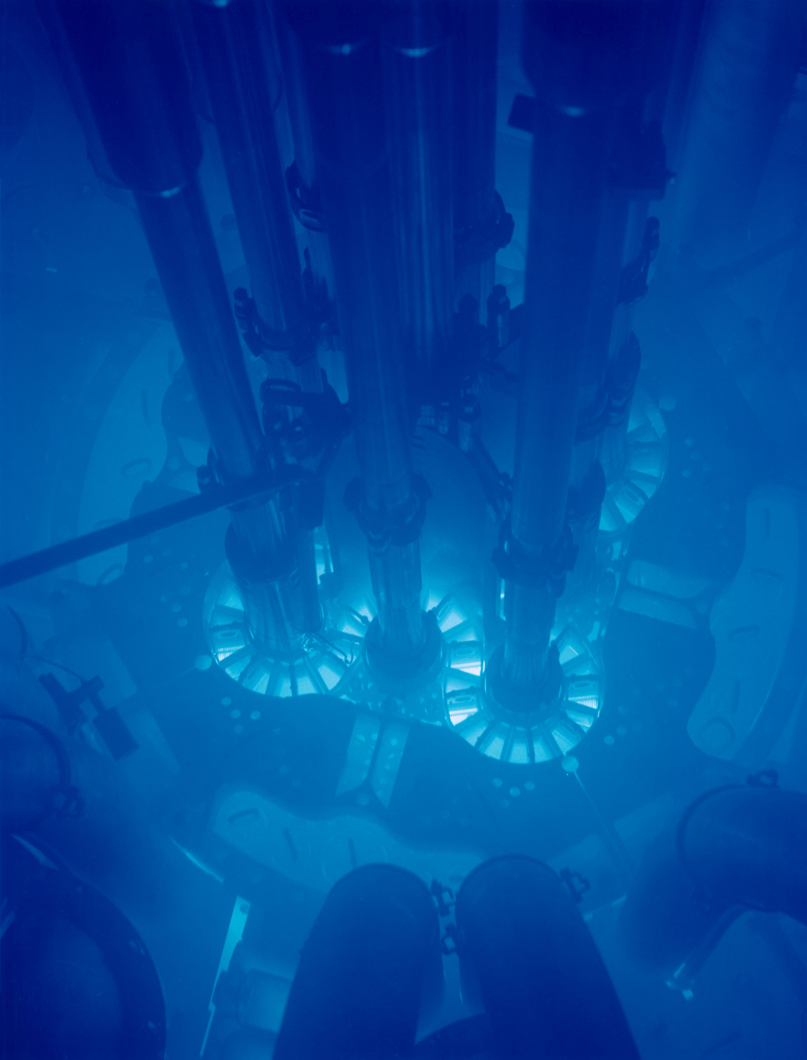 The following is the author's description of the photograph quoted directly from the photograph's Flickr page."Argonne National Laboratory and Idaho National Laboratory have announced a collaboration to study how to better recycle spent nuclear fuel." Read morePhoto: Samples from Idaho National Laboratory's Advanced Test Reactor (ATR) core will be sent to Argonne's ATLAS particle accelerator for analysis to learn the characteristics of the nuclear material. Powered up, the fuel plates can be seen glowing bright blue. The core is submerged in water for cooling." More on the ATR